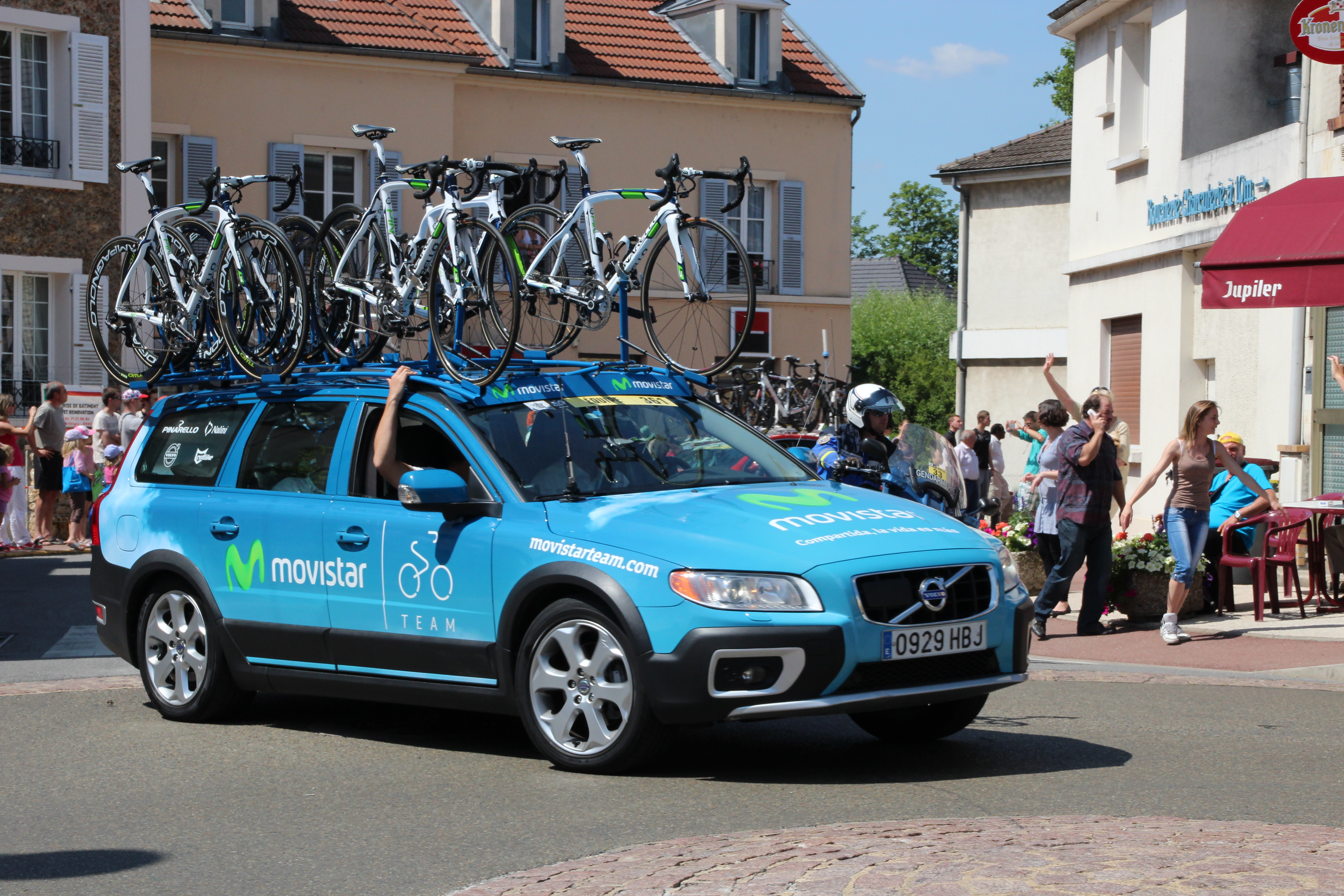 Passage of the 2012 Tour de France in Saint-Rémy-lès-Chevreuse, France.